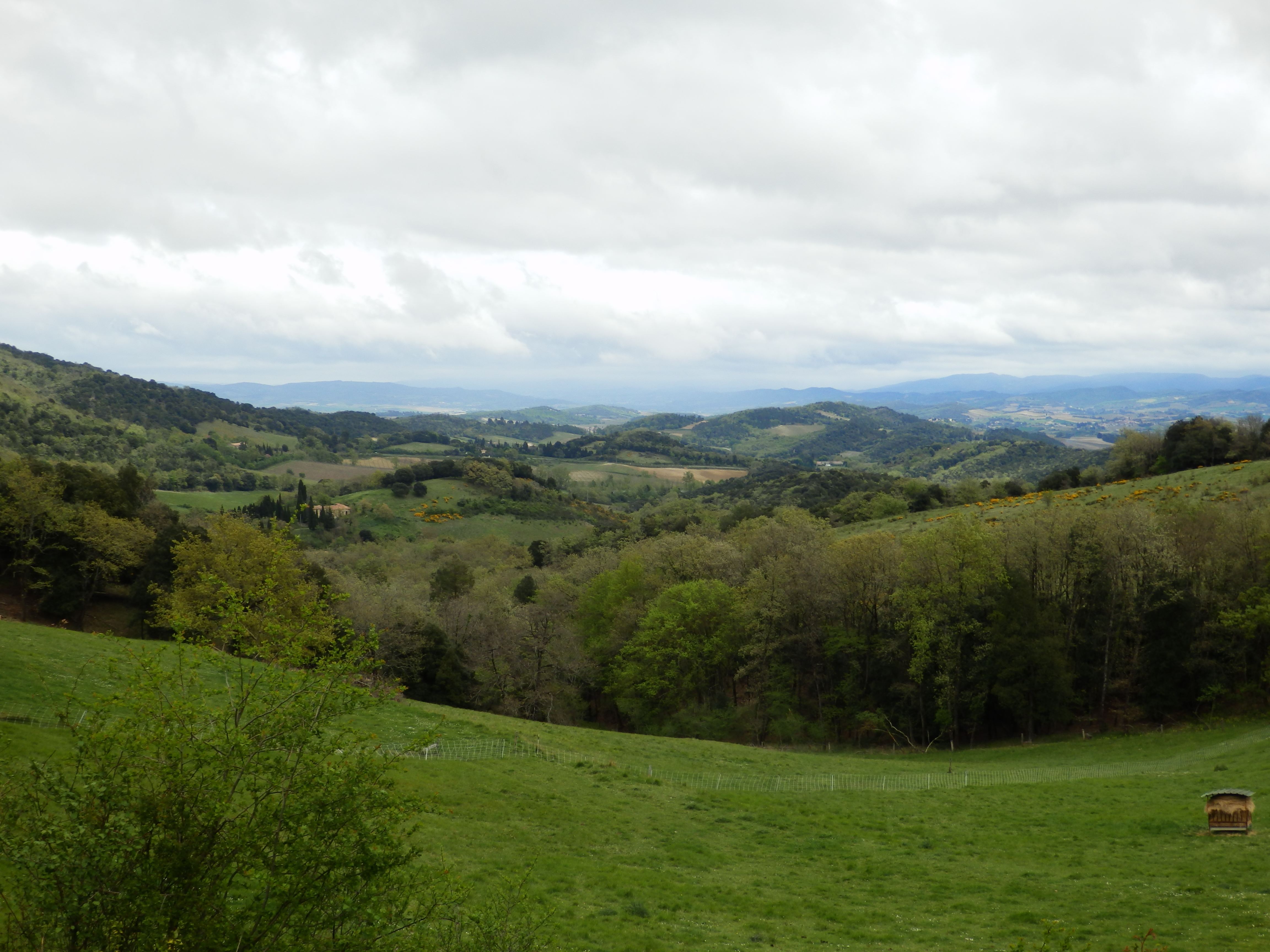 Landscape in Monthaut, Aude, France